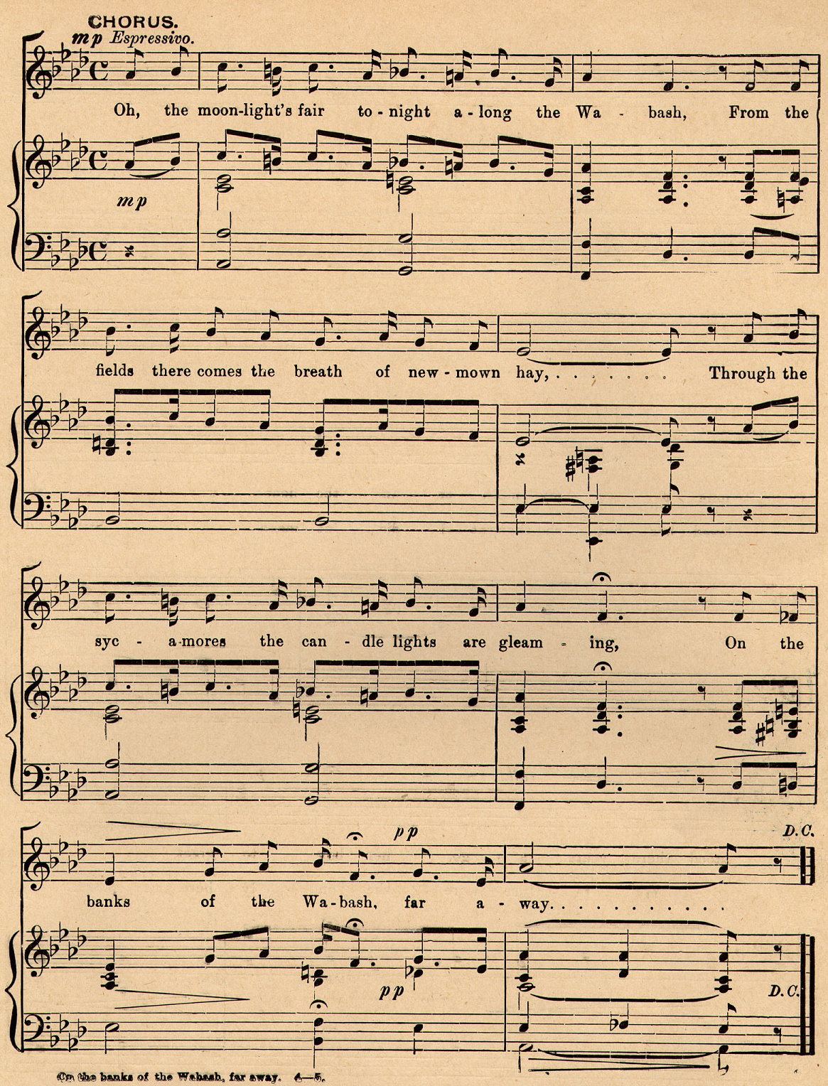 Sheet music to the chorus of "On the Banks of the Wabash, Far Away," as published in 1897